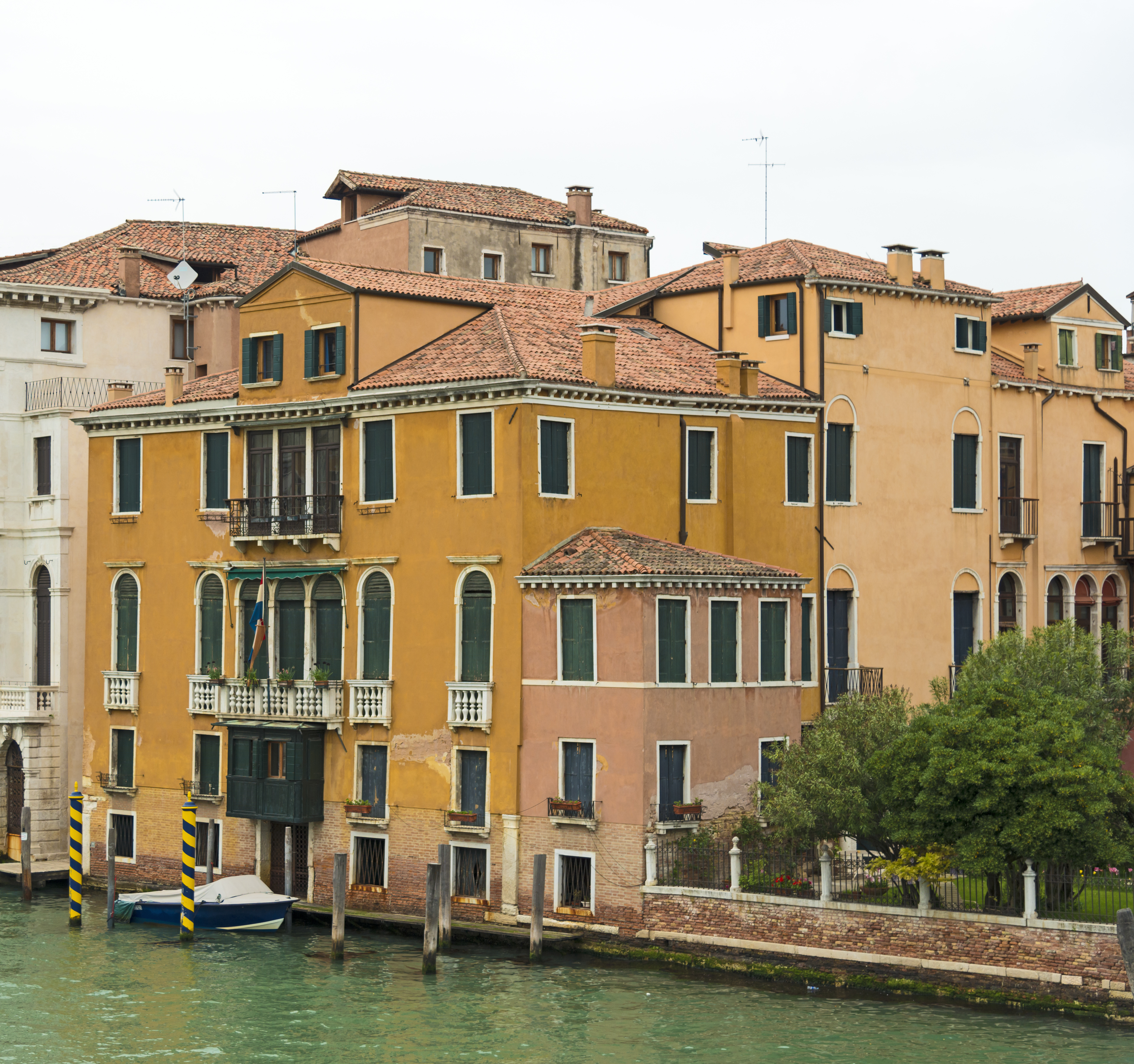 Palace Civran Badoer Barozzi Venice. Facade on Grand Canal.